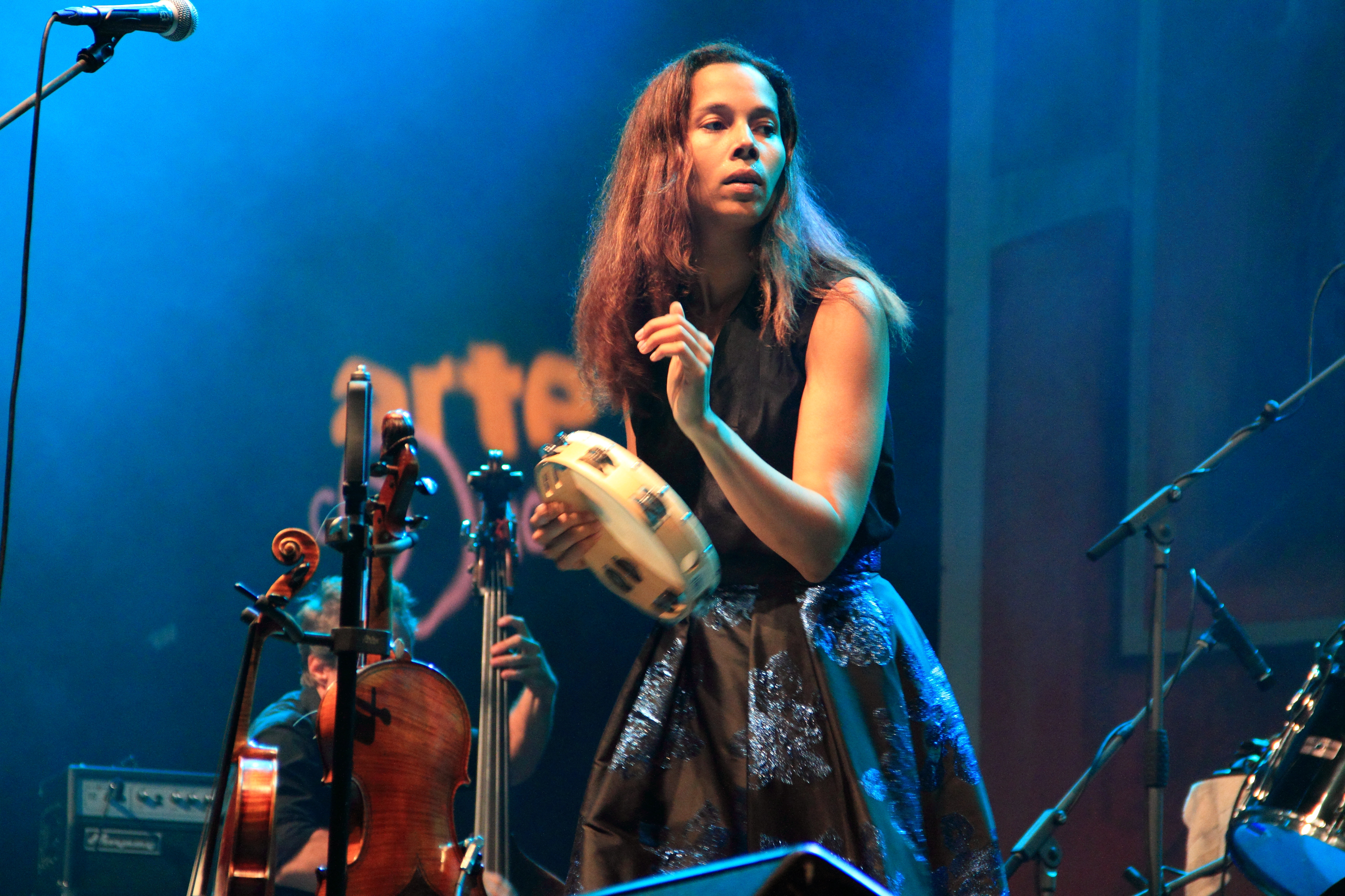 Concert with Rhiannon Giddens at TFF Rudolstadt 2015.